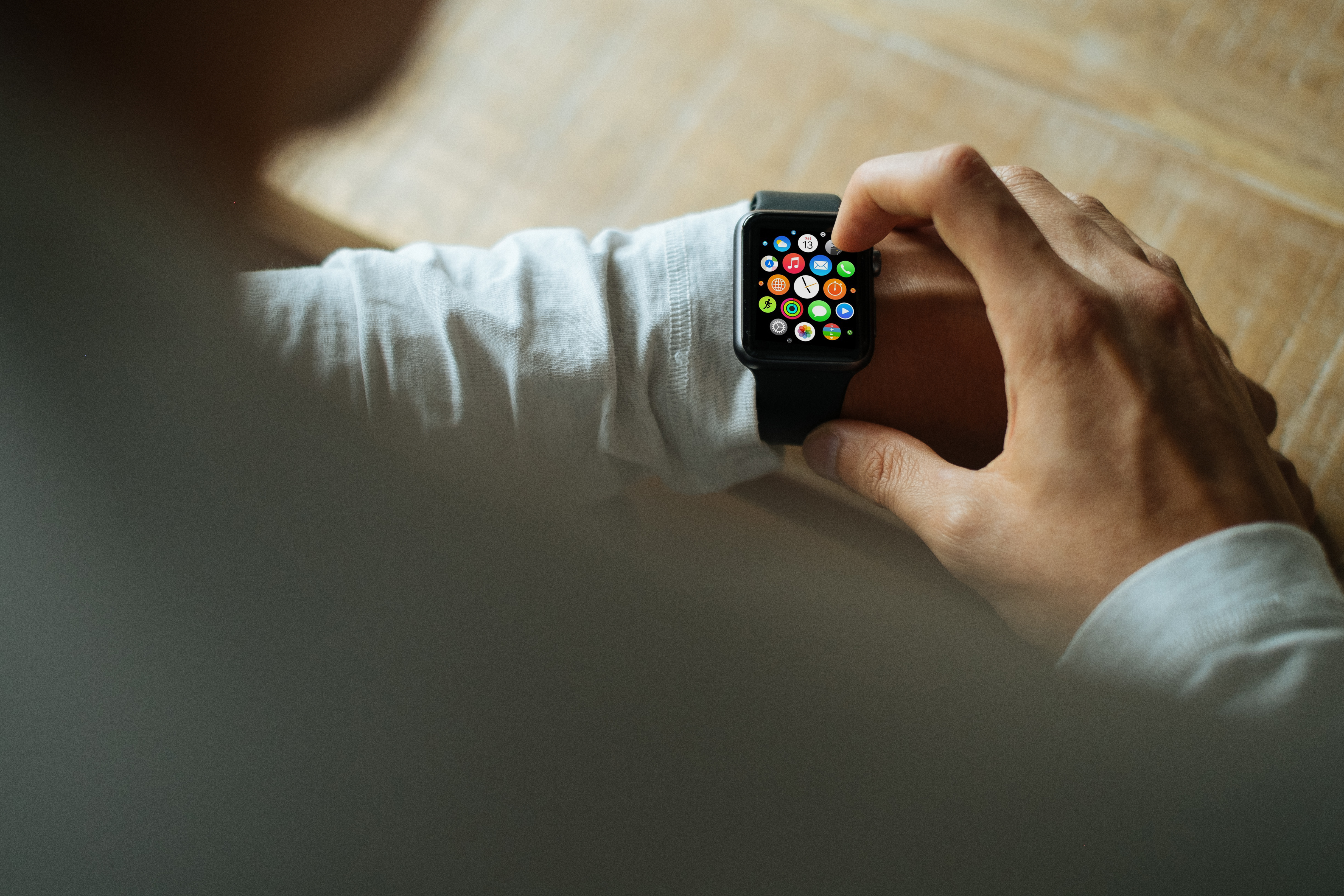 Crew 2015-06-14